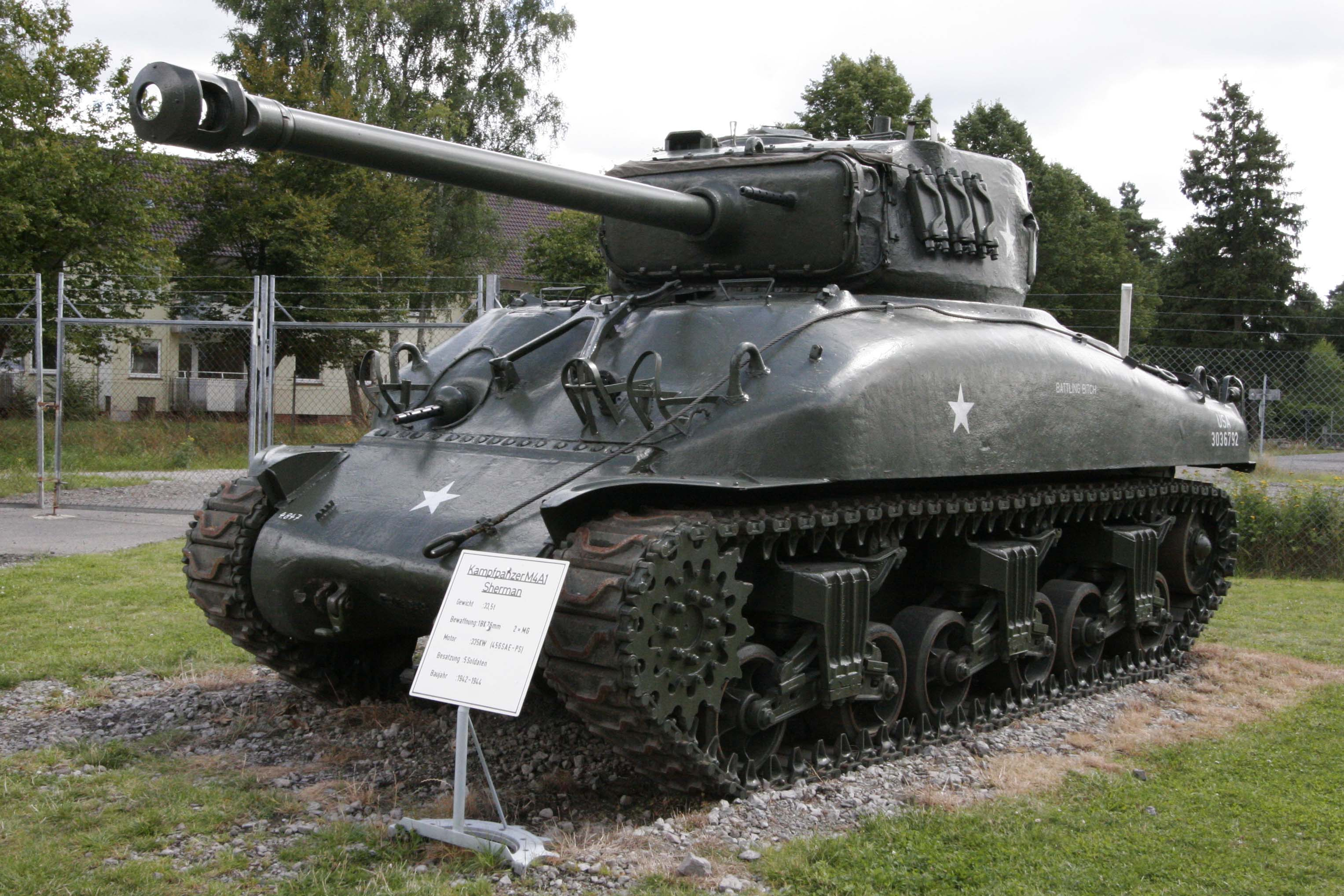 Sherman M4A1 76 VVSS on display at the Deutsches Panzermuseum Munster , Germany.